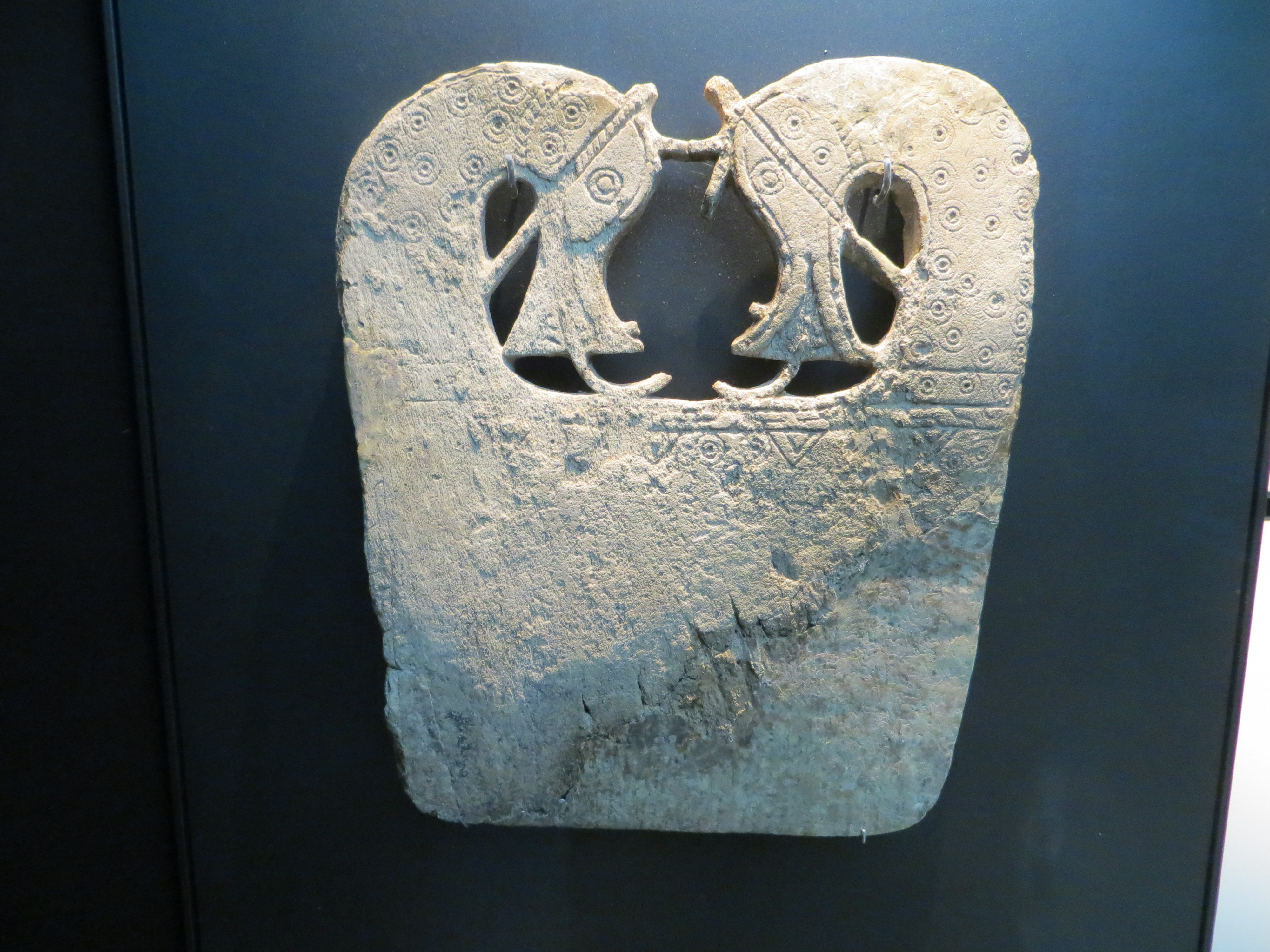 Lilleberge whalebone plaque in the British Museum